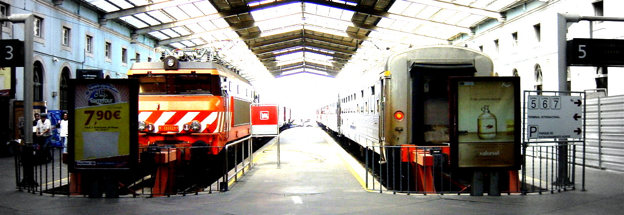 S. Apolónia Train Station, Lisbon.